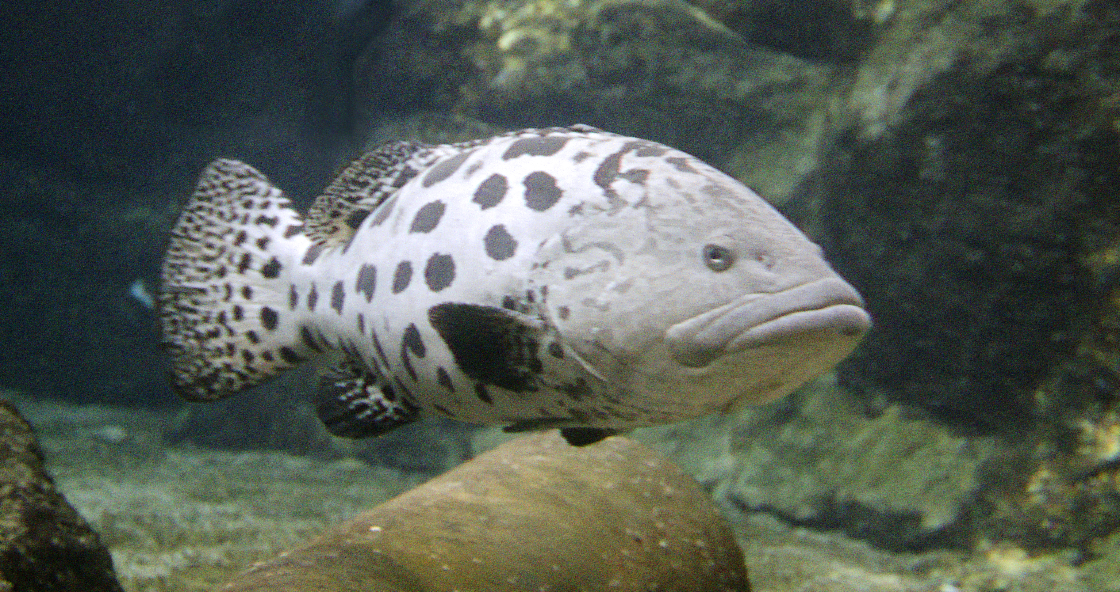 Epinephelus tukula in the Ushaka Seaworld